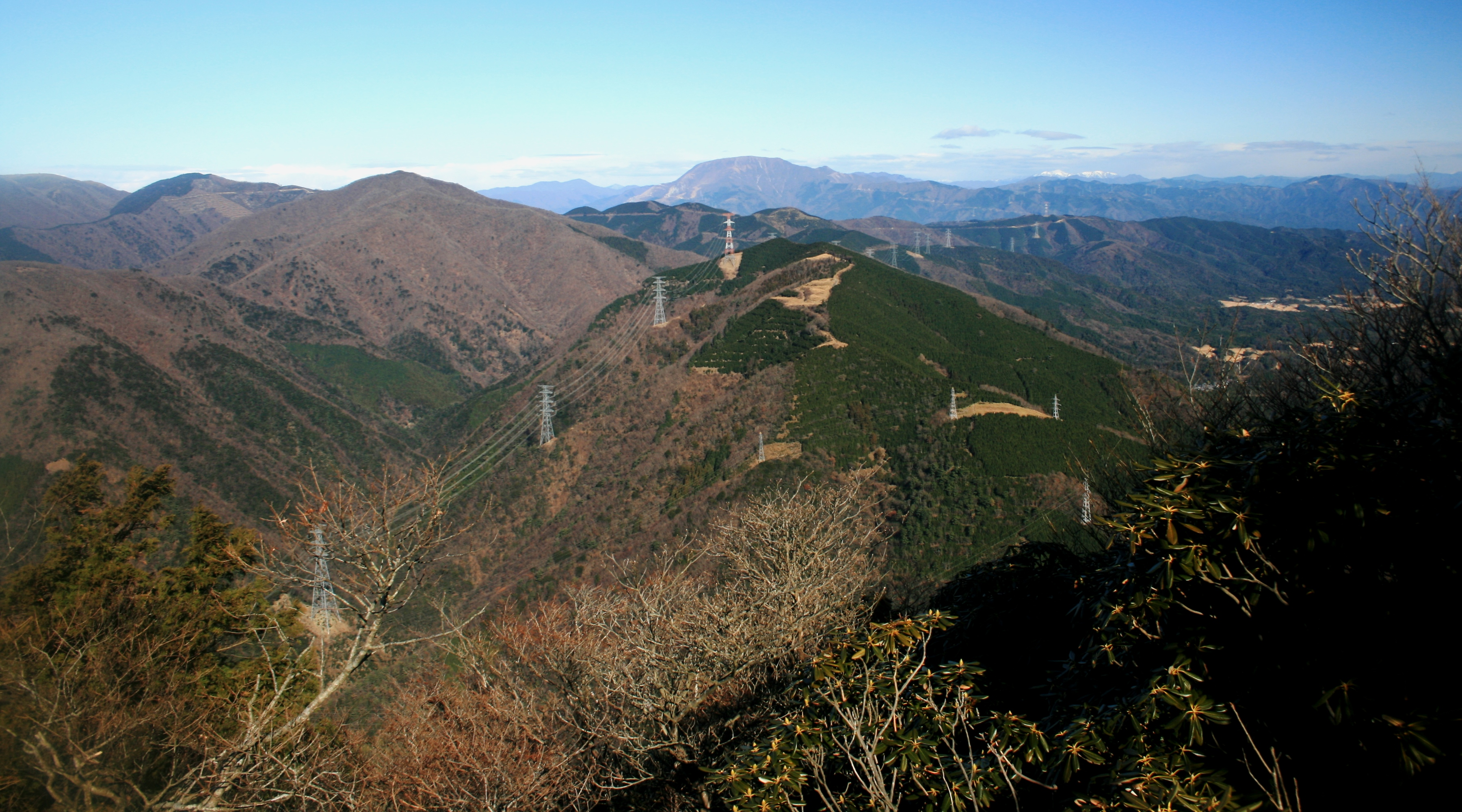 Mount Ibuki from Mount Eboshi